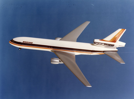 Concept model for the Boeing 777-100; essentially a 3-engined variant of the 777